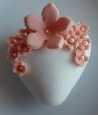 Sugar Plum Hand decorated, made ​​of sugar paste.